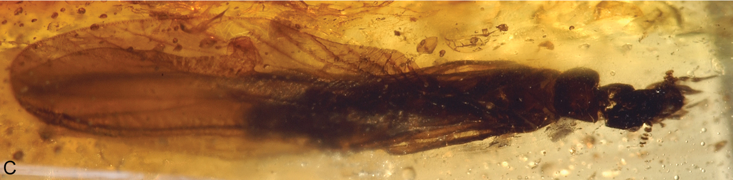 Photomicrographs of Cambay amber (Early Eocene) termites. C Zophotermes ashoki Engel & Singh, sp. n., holotype (Rhinotermitidae: Tad–42).